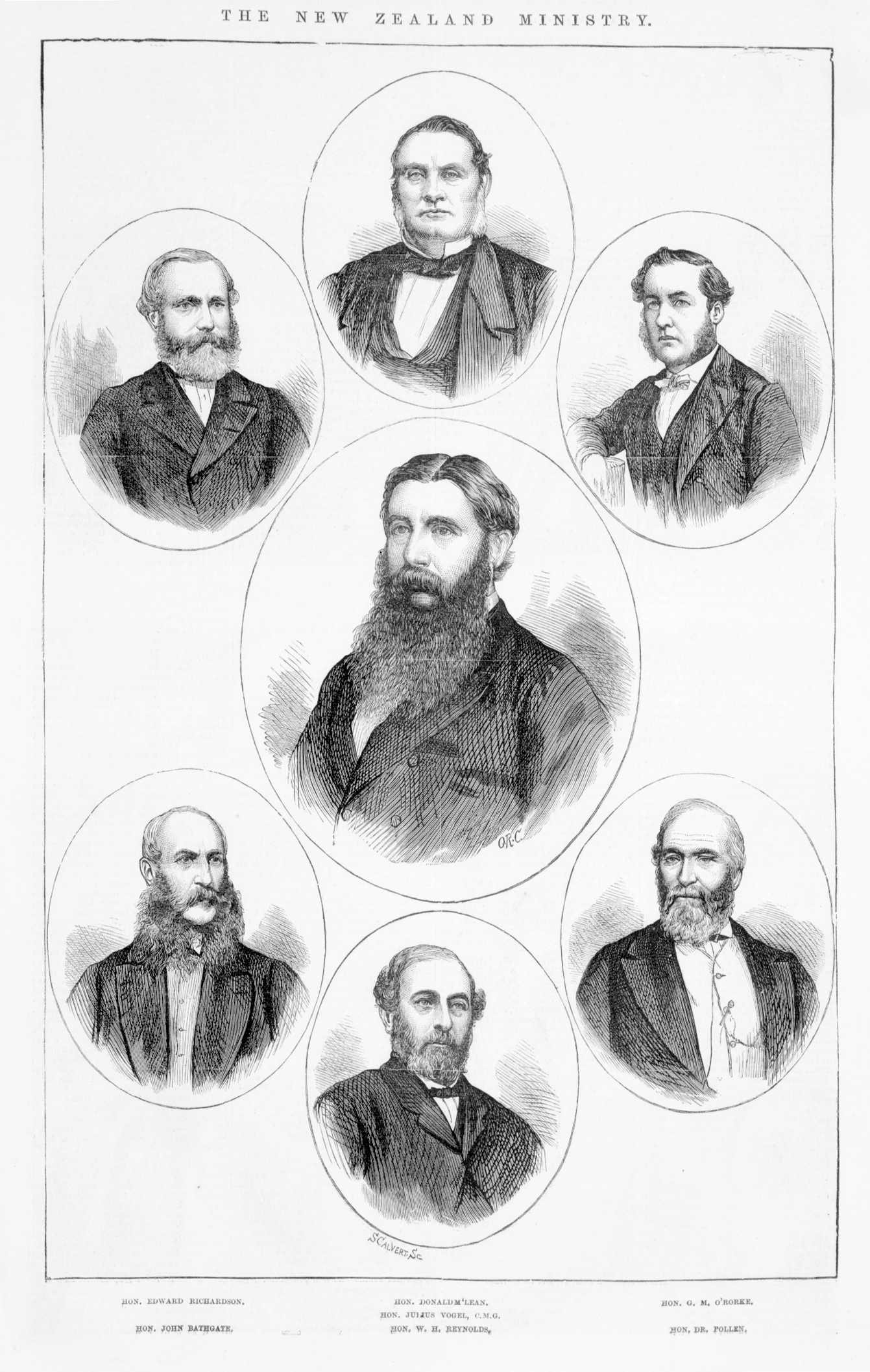 Portraits of Edward Richardson (1830/1831–1915), John Bathgate (1809–1886), Donald McLean (1820–1877), Julius Vogel (1835–1899), William Hunter Reynolds (1822–1899), George Maurice O'Rorke (1830–1916), and Daniel Pollen (1813–1896)